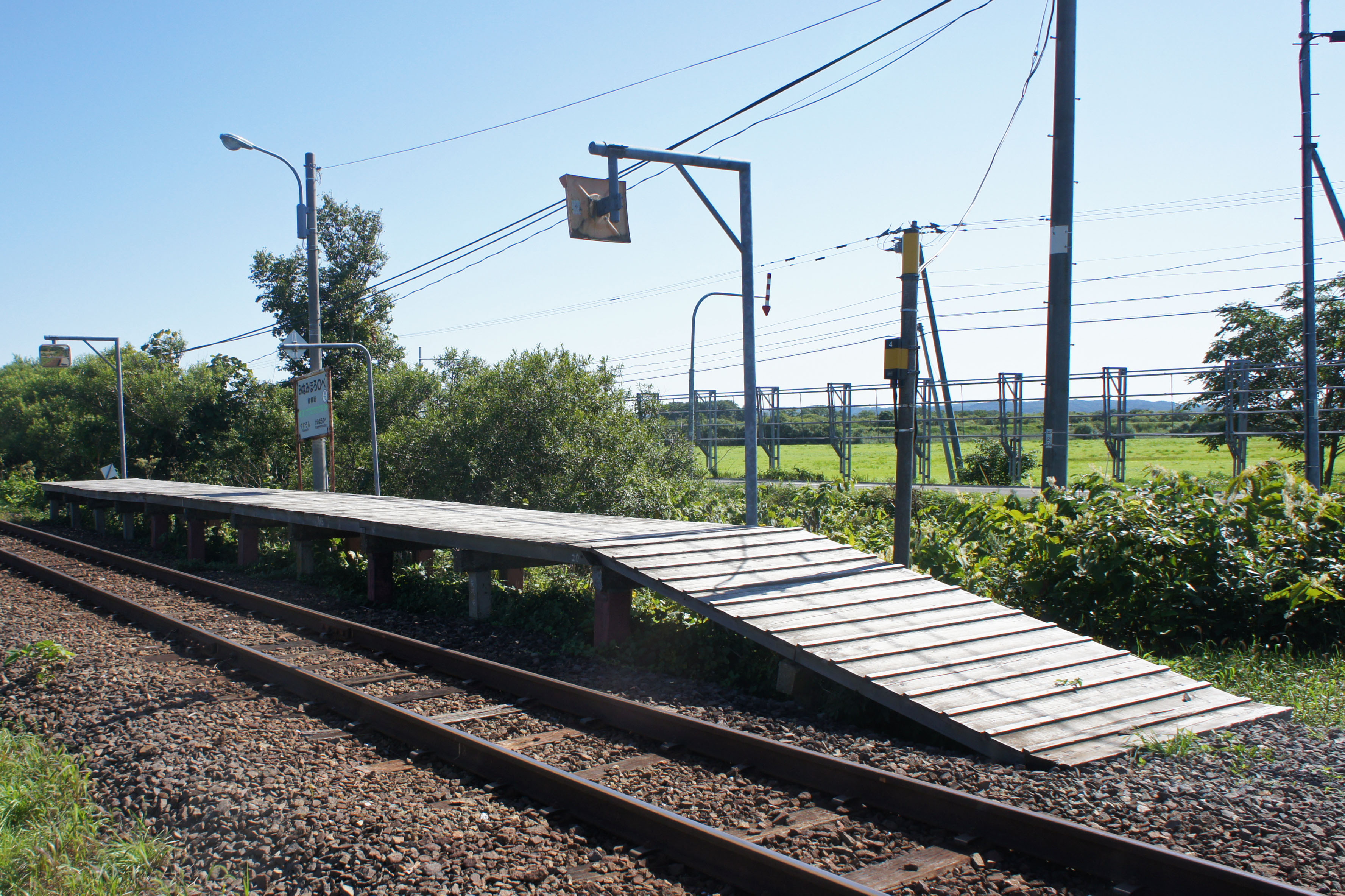 Overall of JR Soya-Main-Line Minami-Horonobe Station